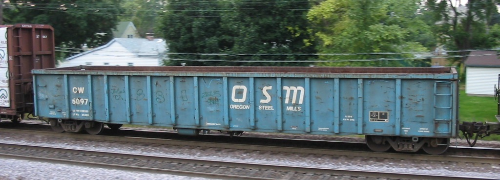 CW 5097, a gondola, seen at the Rochelle Railroad Park. Photo by Sean Lamb (User:Slambo), July 18, 2004